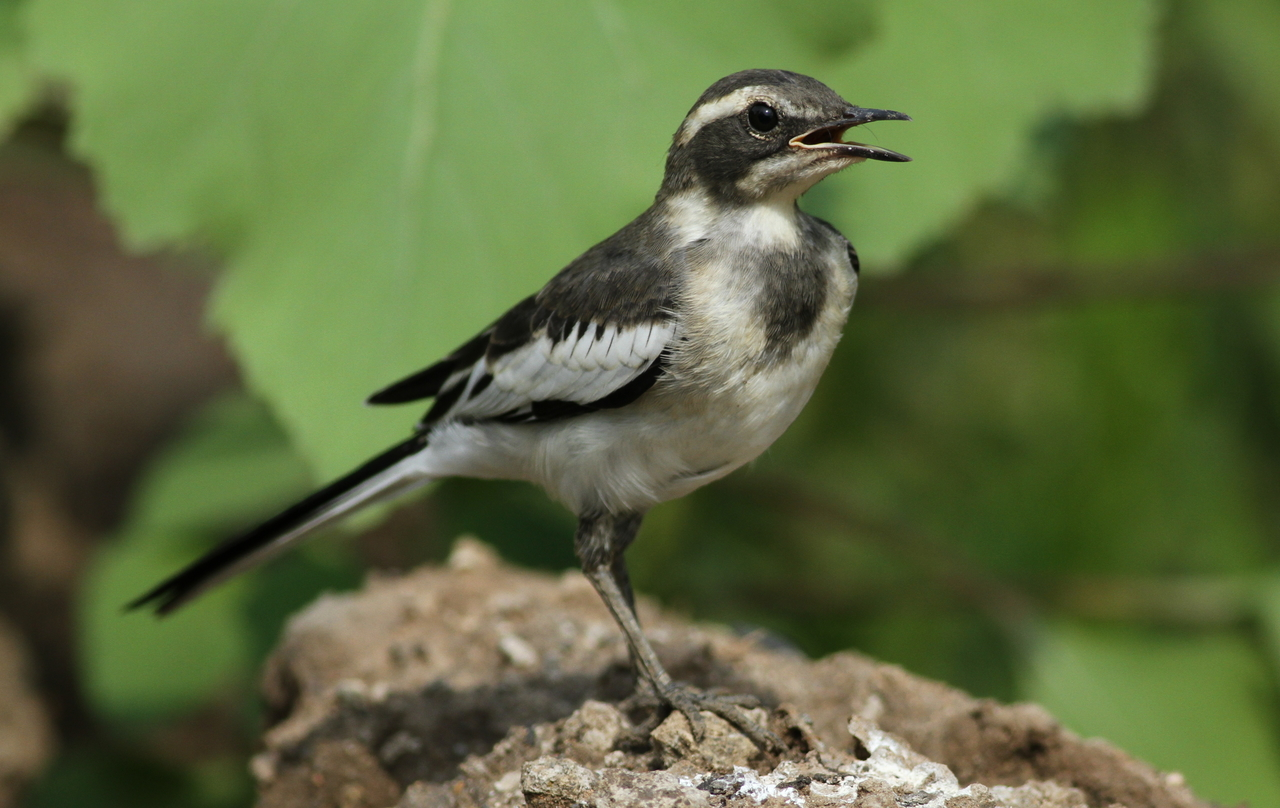 African Pied Wagtail, Motacilla aguimp in Kruger National Park